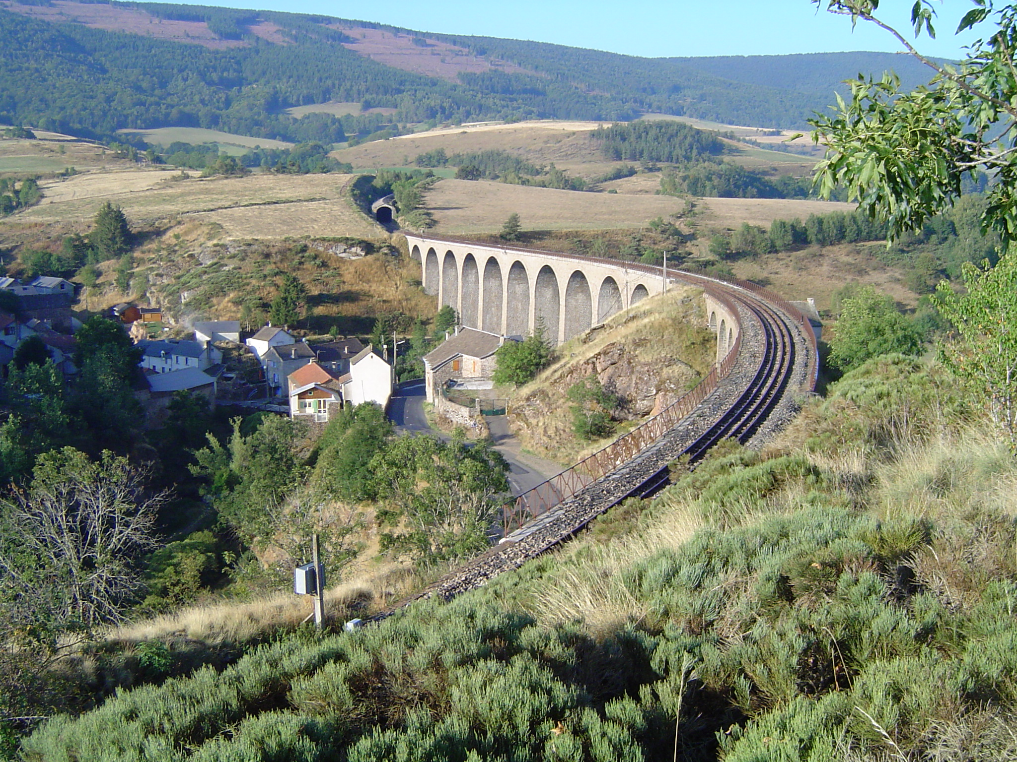 Chadenet (Lozère) Tunnel de Chadenet